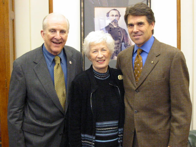 Sam and Shirley Johnson with Texas Governor Rick Perry in Austin the day the State House and State Senate saluted Johnson's 30 year homecoming anniversary.